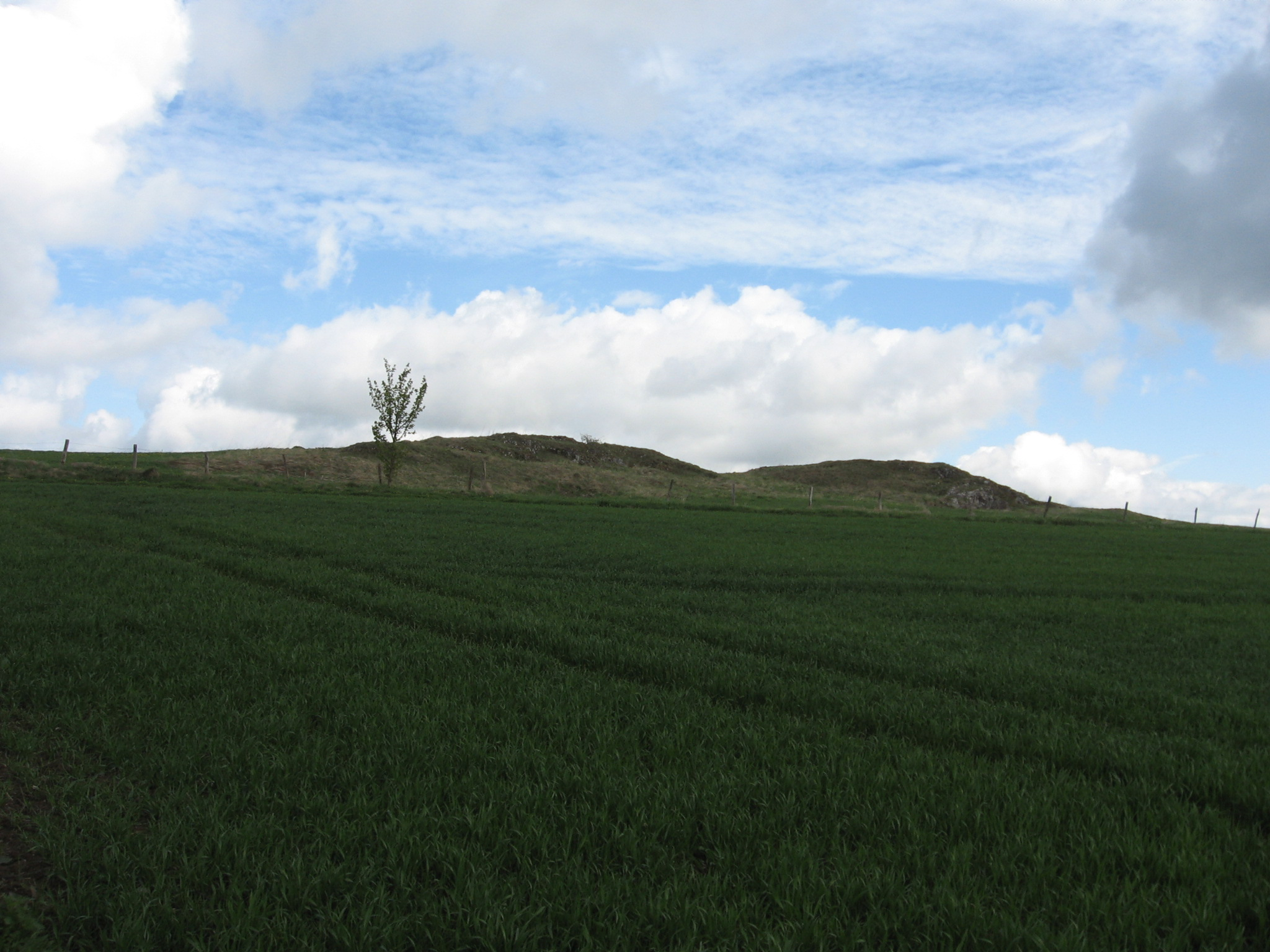 Naturschutzgebiet Warenberg (Bergkuppe) aus Süden.